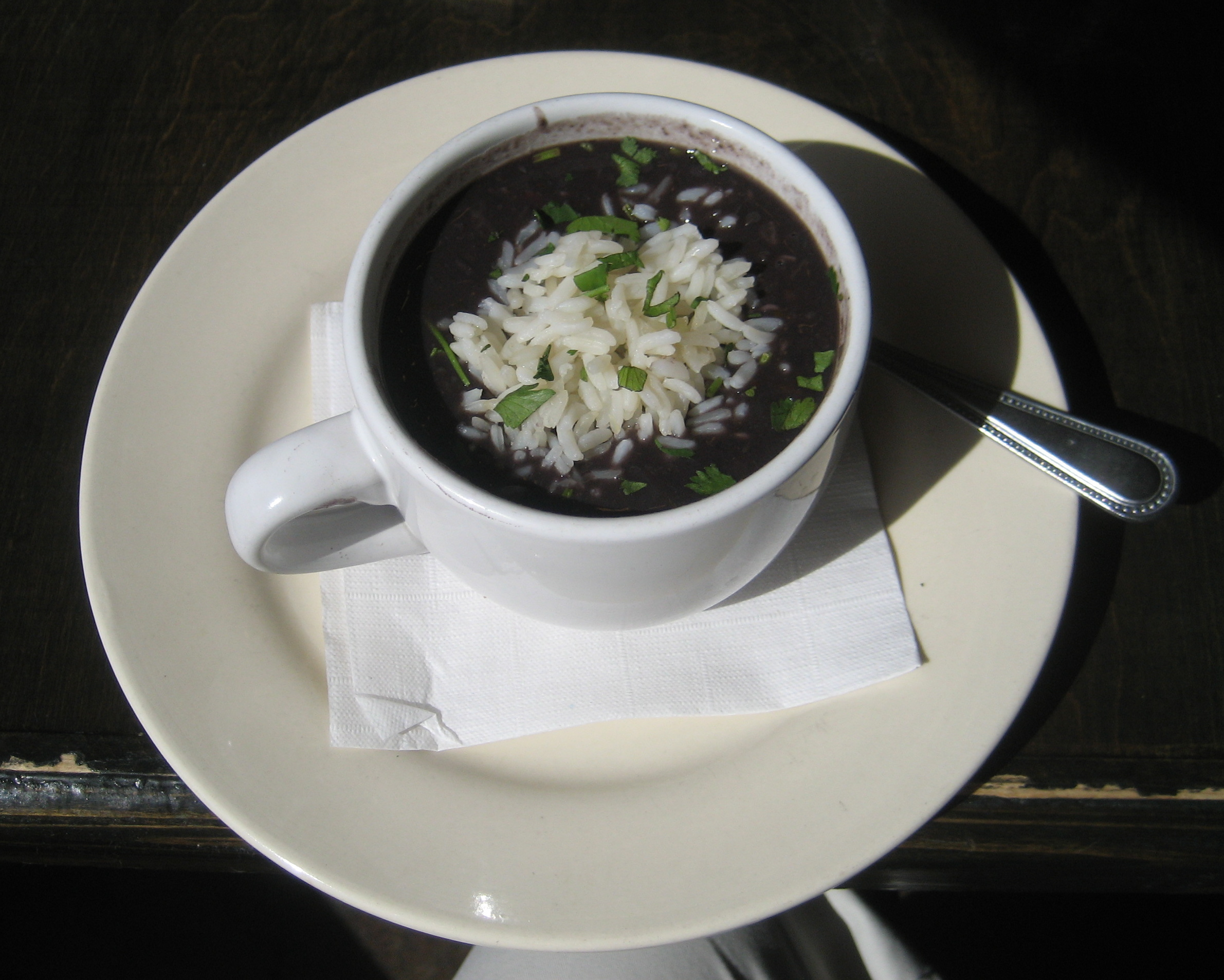 Cup of black bean soup, Ruby Slipper restaurant, Mid-City New Orleans.